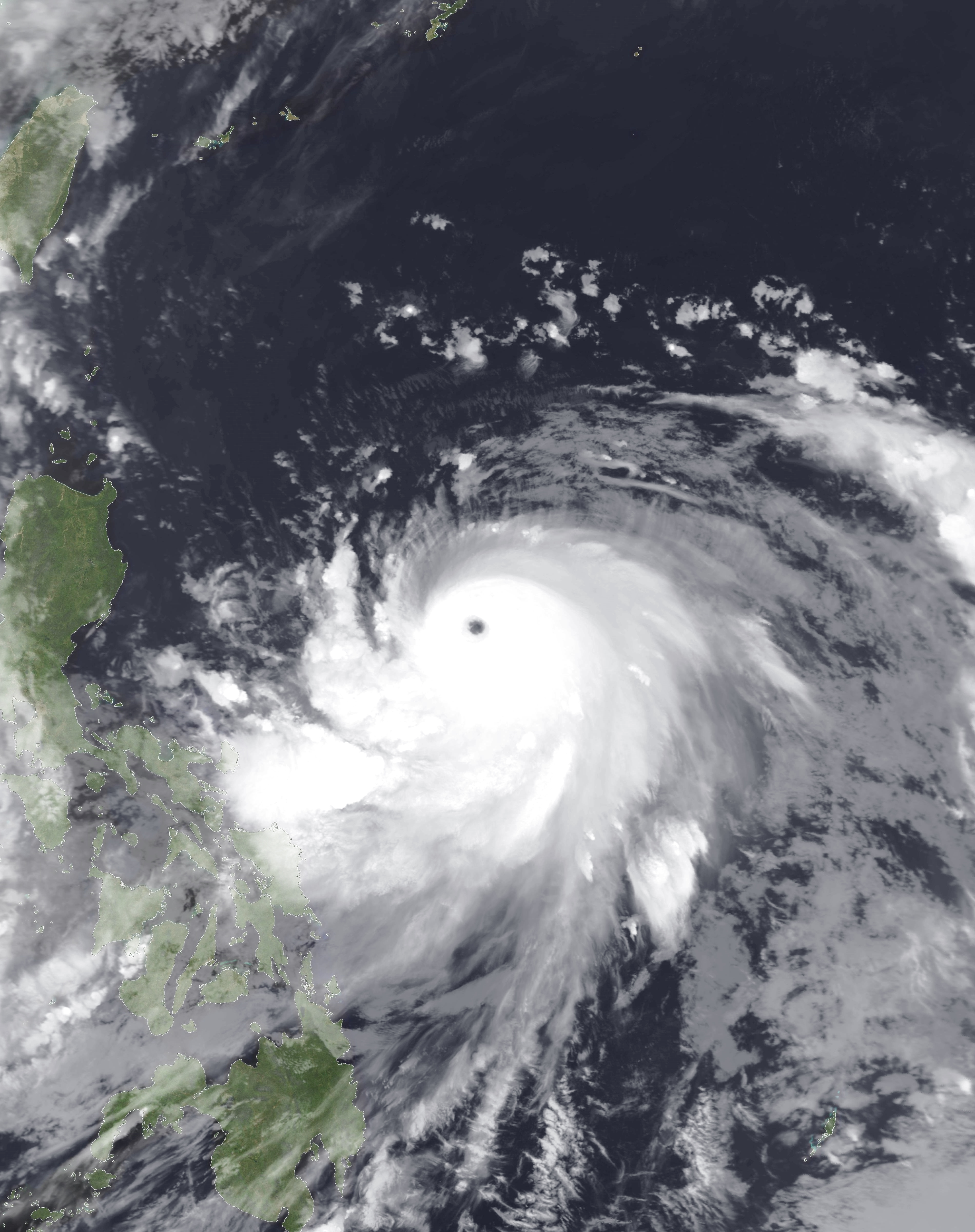 Typhoon Guchol on June 16, 2012